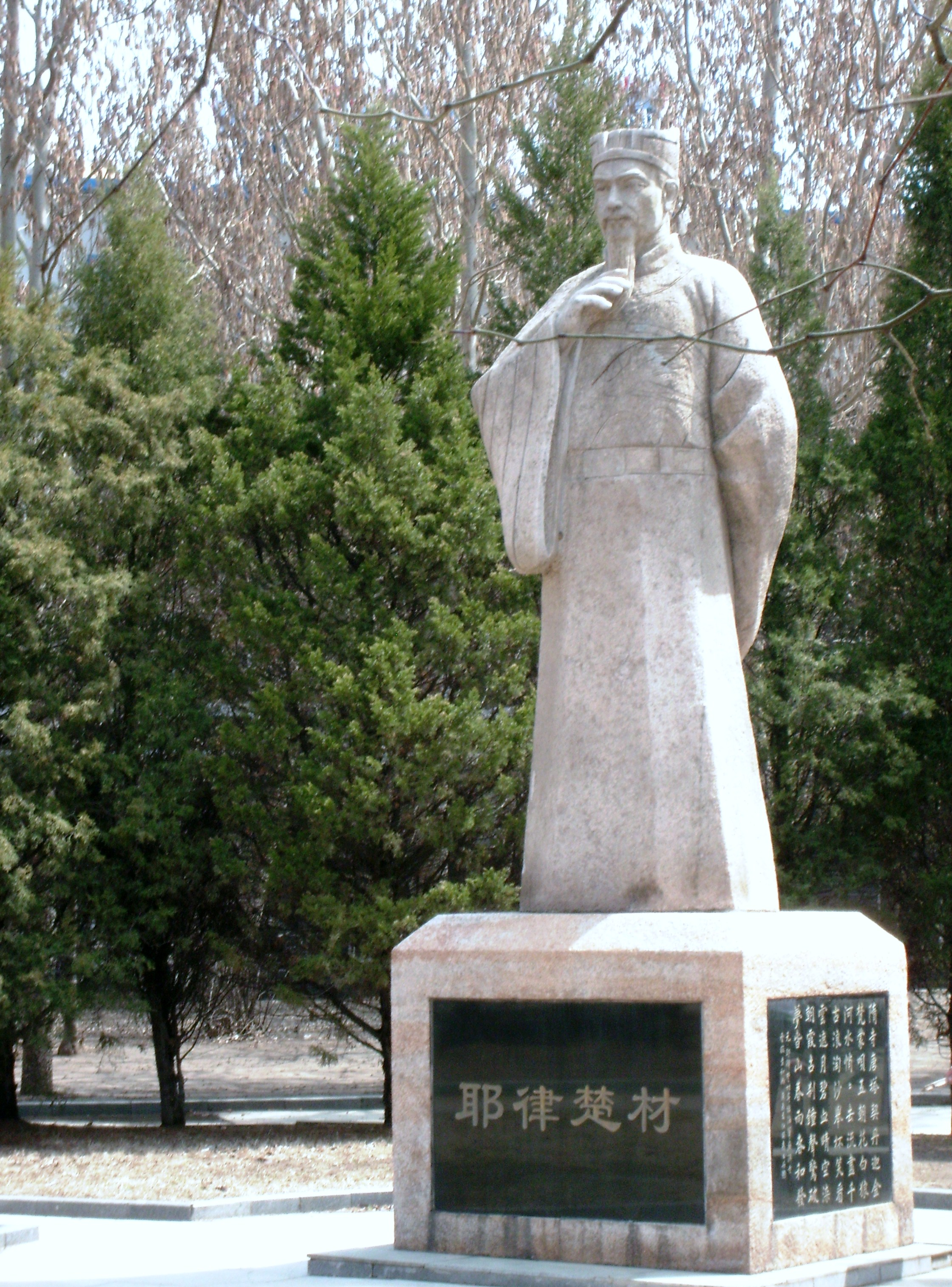 The statue of Yē​lǜ​ Chǔ​cái​ (耶律楚材), an ancient Chinese philosopher, located in the southeast corner of Guta Park.